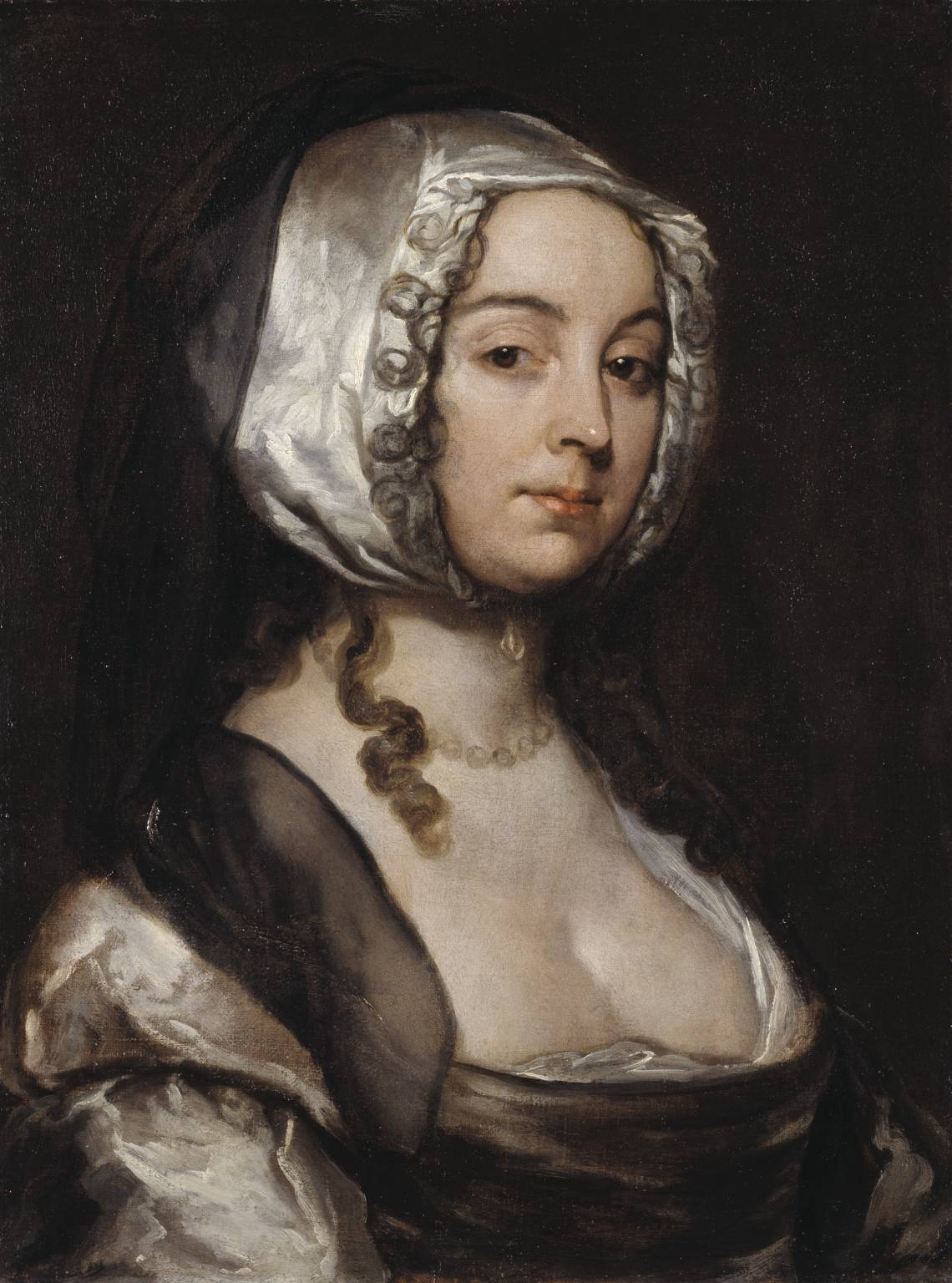 Portrait thought to be of Judith Sander, the artist's wife, circa 1640. William Dobson 1611-1646 Purchased 1992